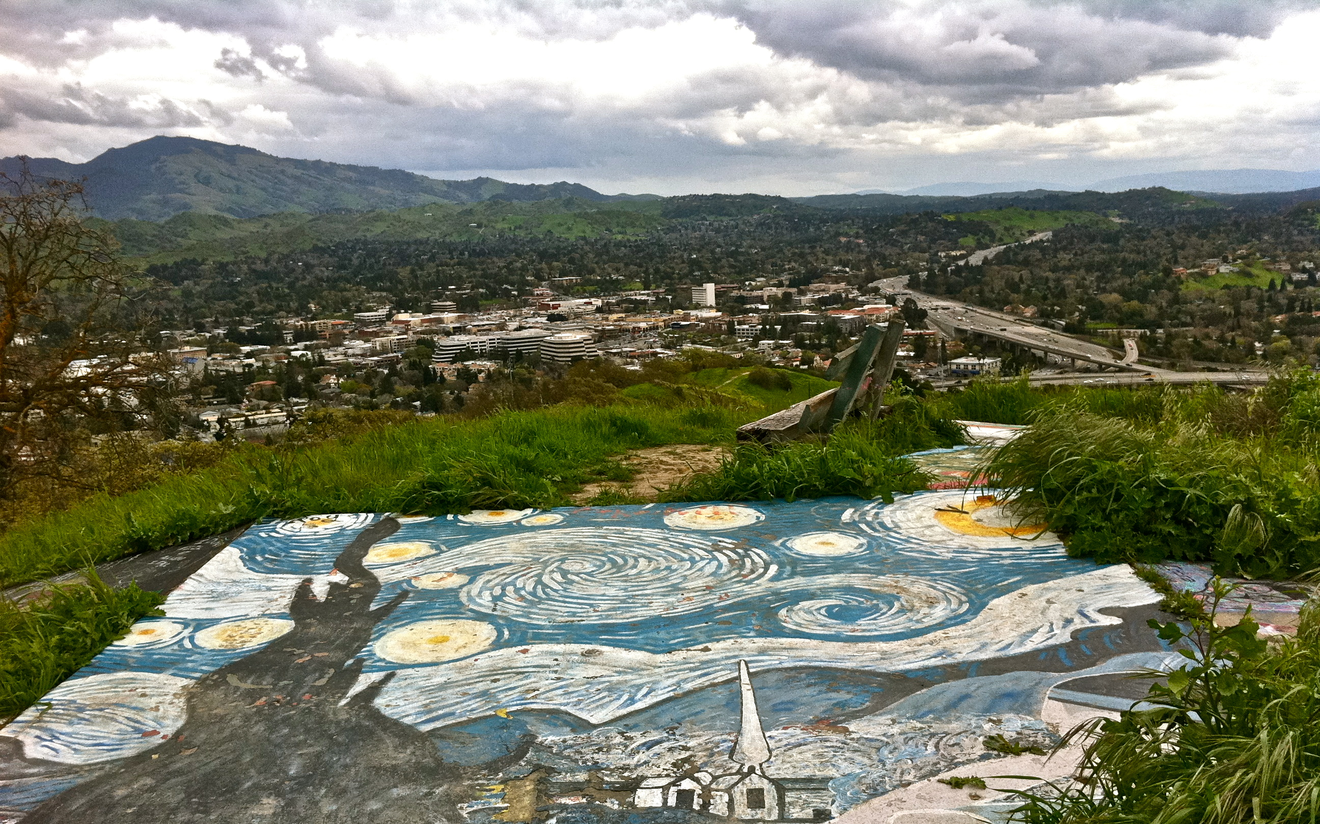 painted by Jon Griffin